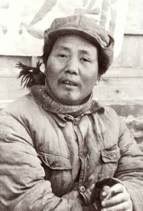 Mao Zedong in Yan'an.